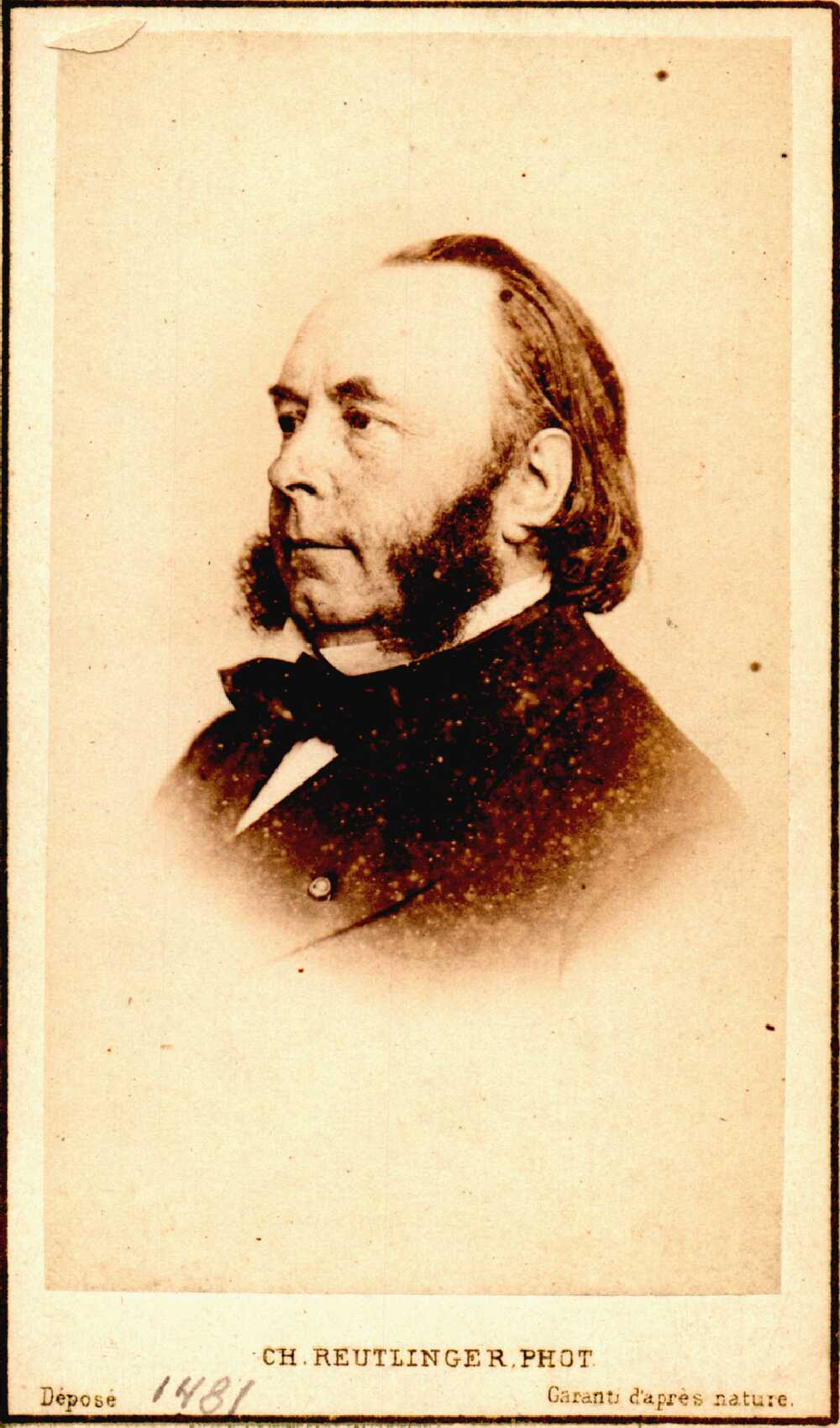 Portrait of Edmond Fremy (1814-1894), Chemist, Medium: Medium unknown; Dimensions: 8.8 cm x 5.2 cm Date: prior to 1880 Collection: Scientific Identity: Portraits from the Dibner Library of the History of Science and Technology - As a supplement to the Dibner Library for the History of Science and Technology's collection of written works by scientists, engineers, natural philosophers, and inventors, the library also has a collection of thousands of portraits of these individuals. The portraits come in a variety of formats: drawings, woodcuts, engravings, paintings, and photographs, all collected by donor Bern Dibner. Presented here are a few photos from the collection, from the late 19th and early 20th century. Persistent URL: Repository: Smithsonian Institution Libraries Accession number: SIL14-F005-09